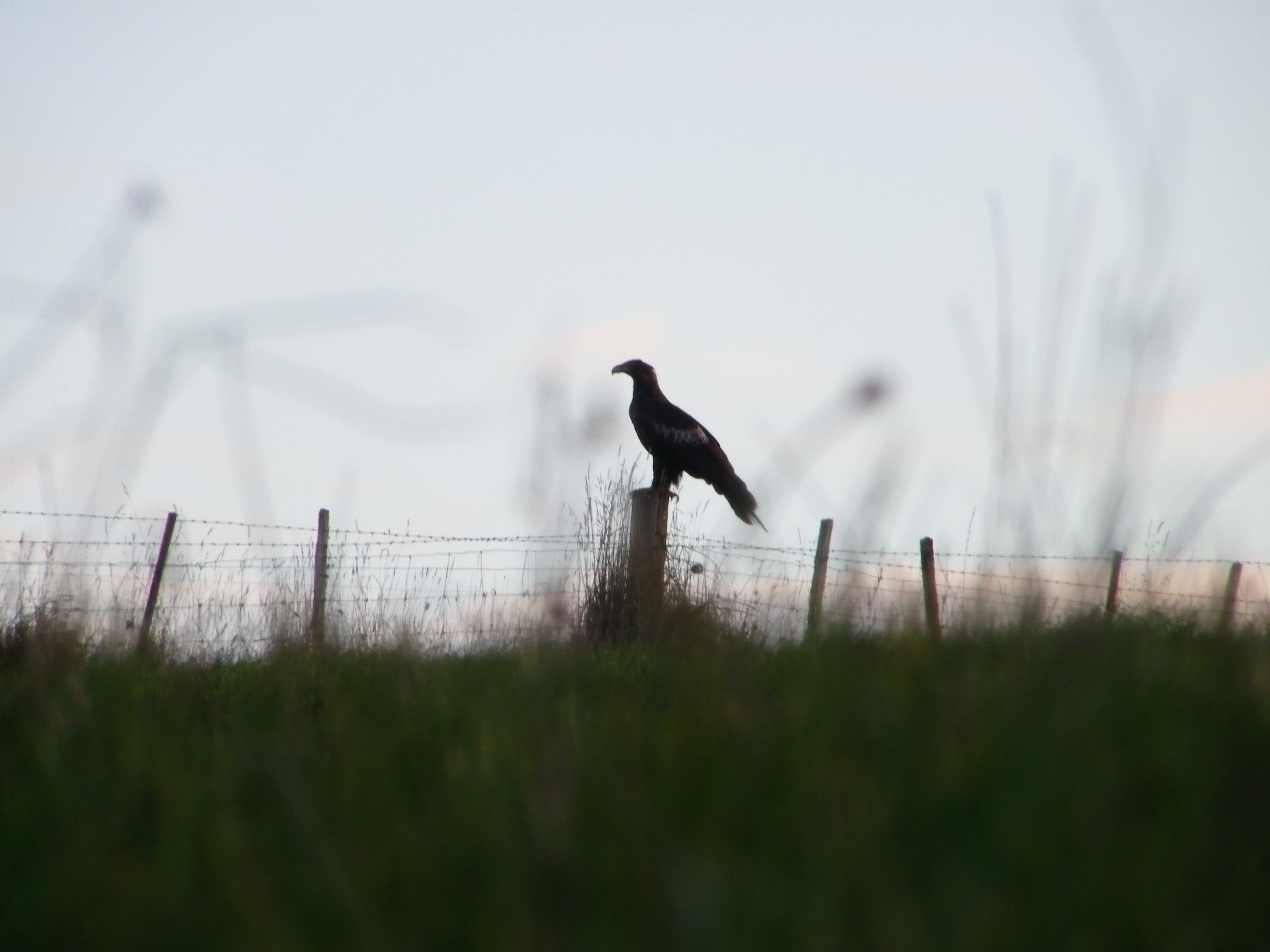 Silhouette of a Tasmanian wedge-tailed eagle perched on a concrete fence pillar. Likely a female due it's size, it was also accompanied two smaller eagles, possibly the male and the juvenile.